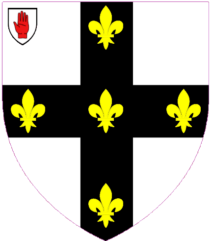 Shield of arms of the Neave baronets of Dagnam Park